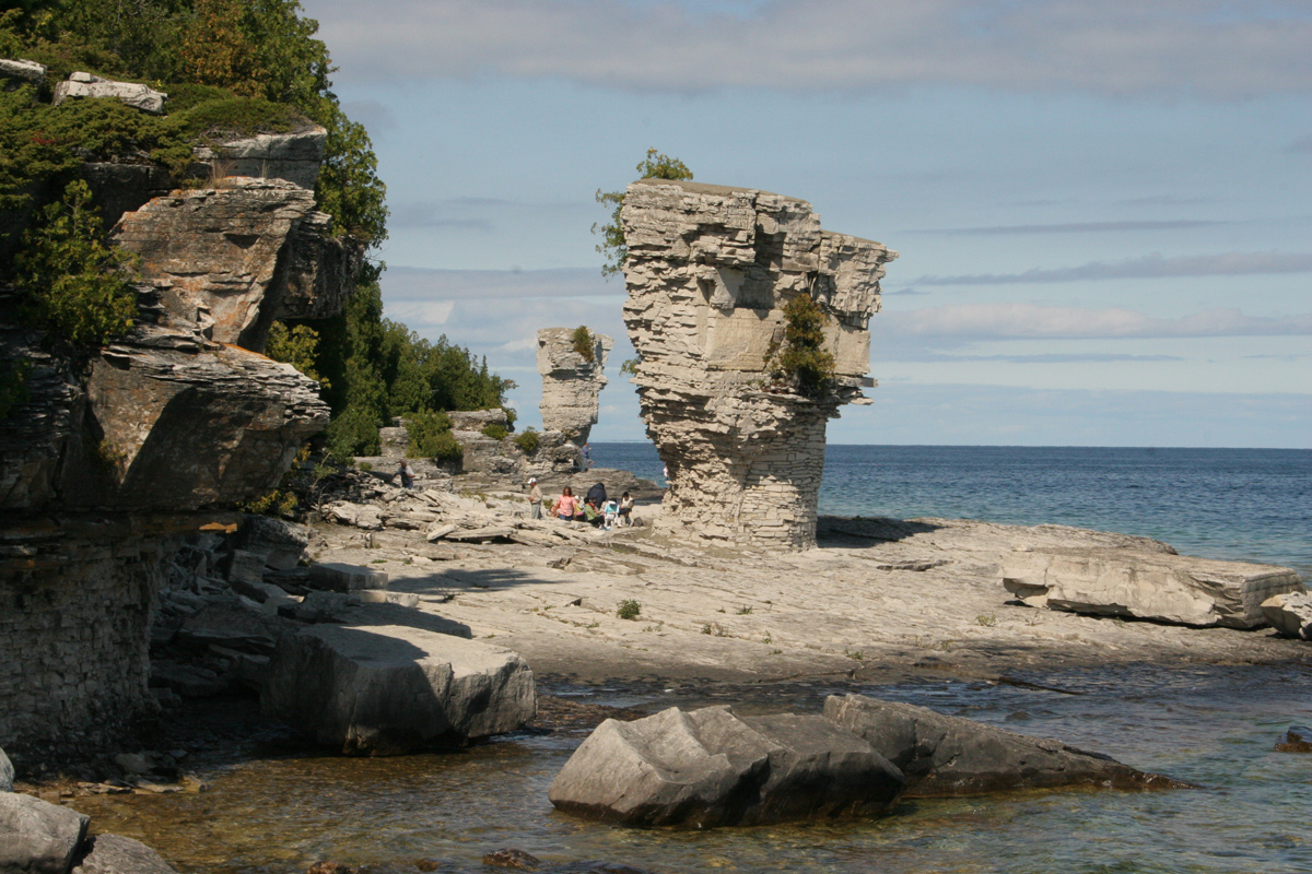 Flowerpot Island - The Flowerpots of the island - located in Fathom Five National Marine Park in Tobermory, Ontario